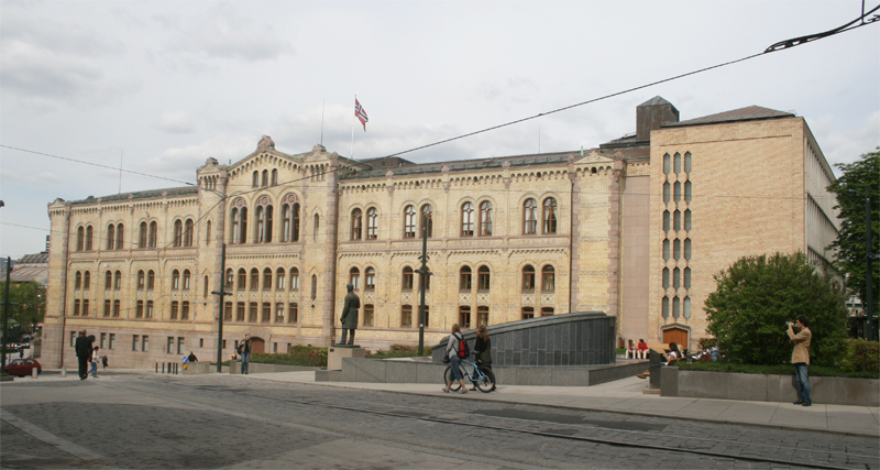 Stortinget fra Wessels plass (Norwegian Parliament)